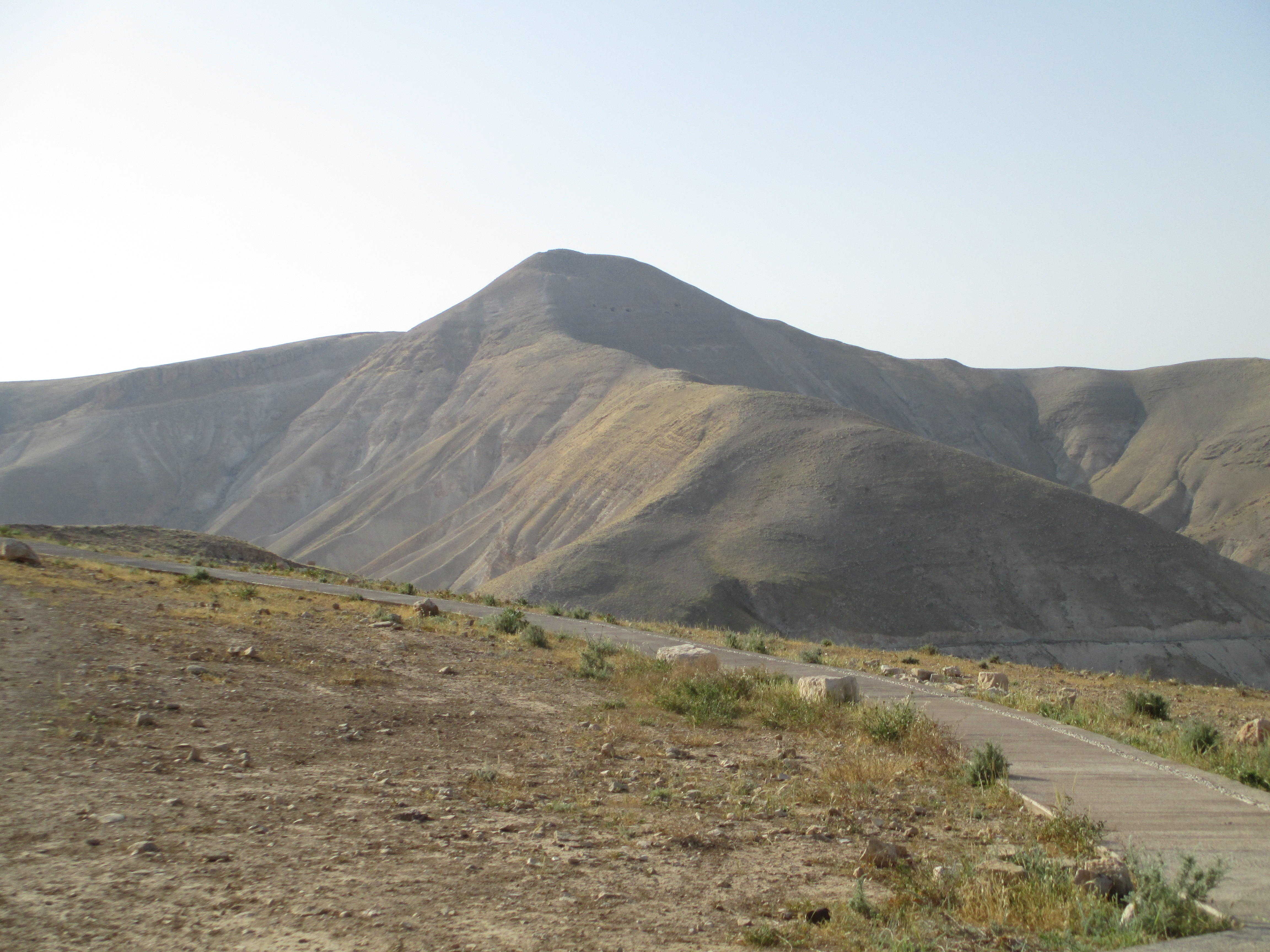 Mt. Sartaba